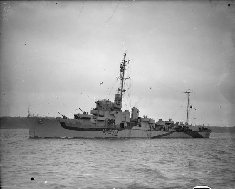 Photograph of Captain class frigate HMS Dacres underway, HMS Dacres in this picture has been converted to act as a headquarters ship during Operation Neptune.